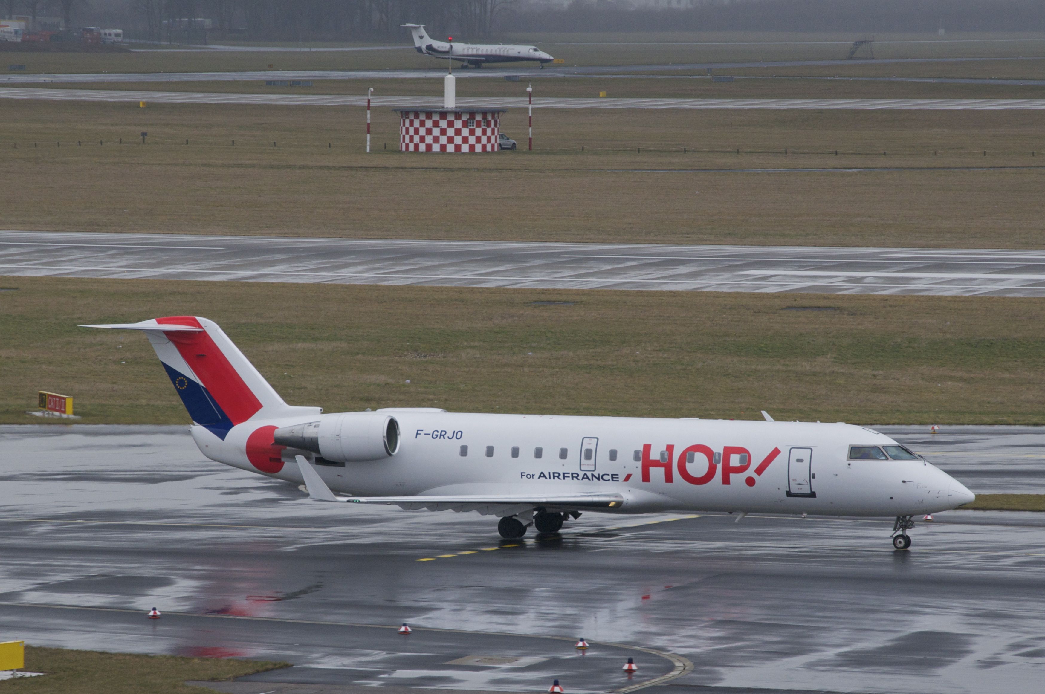 AF's regional flights are now hopping' around... [1]